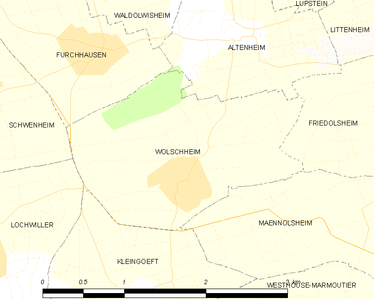 Map of French municipality